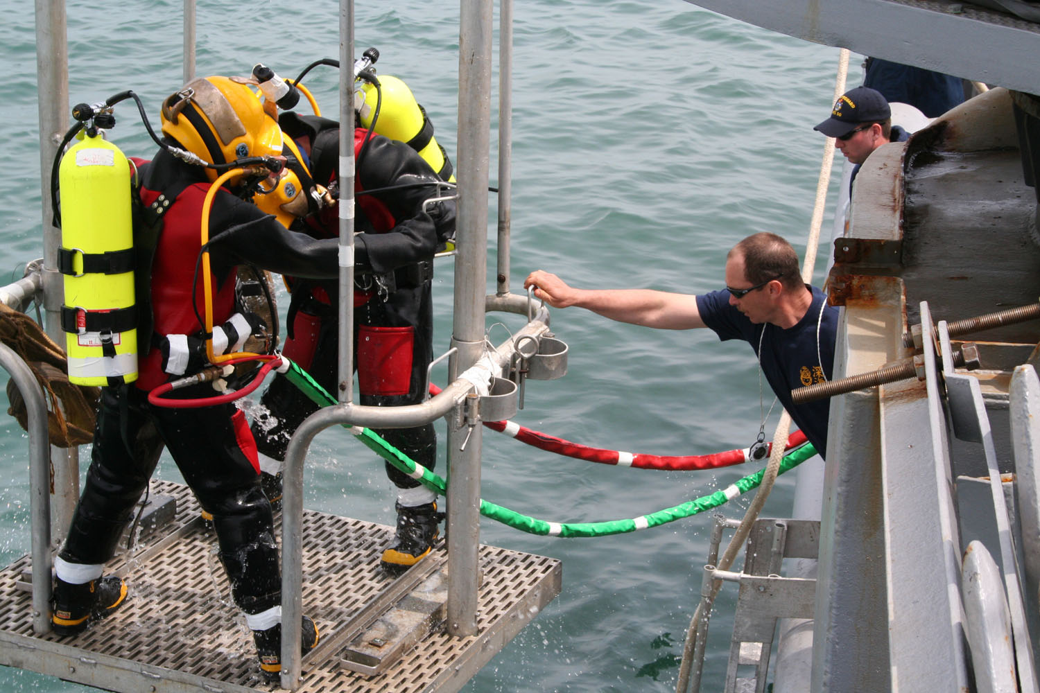 Yellow Sea (May 8, 2006) - Senior Chief Navy Diver Clifford Morin aboard rescue and salvage ship USS Safeguard (ARS 50) tends the dive stage as fellow divers are lowered into the Yellow Sea during a major recovery effort to retrieve components and data recording devices of an U.S. Air Force F-16C fighter aircraft. The F-16C was lost at sea March 14 off the west coast of the Republic of Korea (ROK). Safeguard divers along with a detachment from Mobile Diving Salvage Unit One (MDSU-1) successfully completed the salvage mission with the recovery of the majority of components of the aircraft as well as its black box. U.S. Air Force photo by Staff Sgt. Melissa Allan (RELEASED)